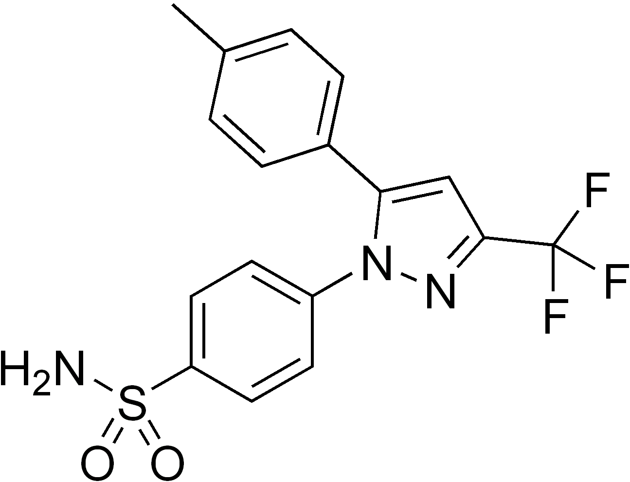 chemical structure of celecoxib